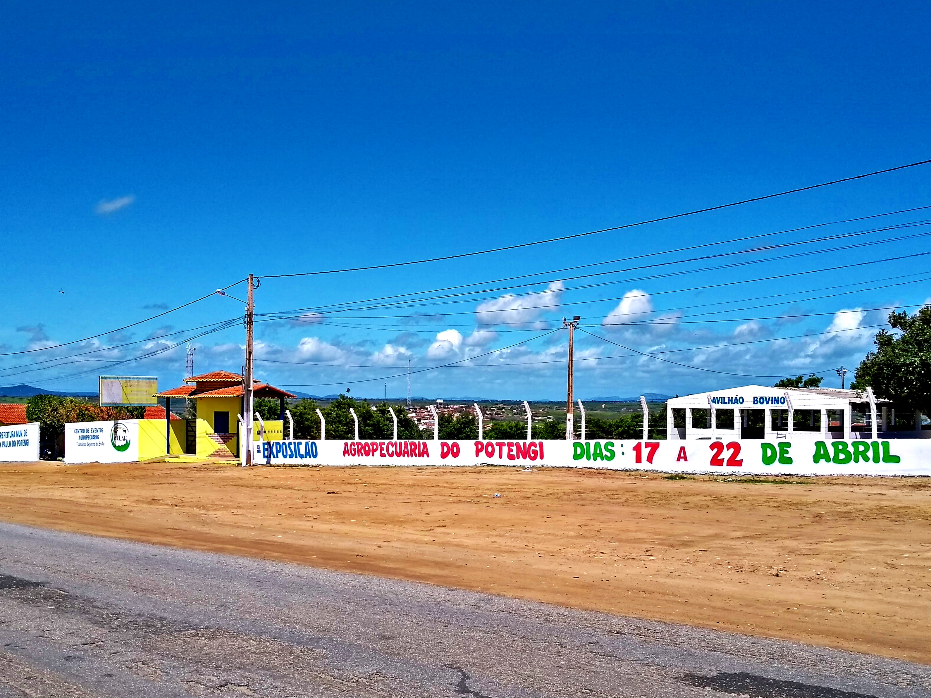 Entrance of the Exhibition Park Francisco Bezerra de Brito.